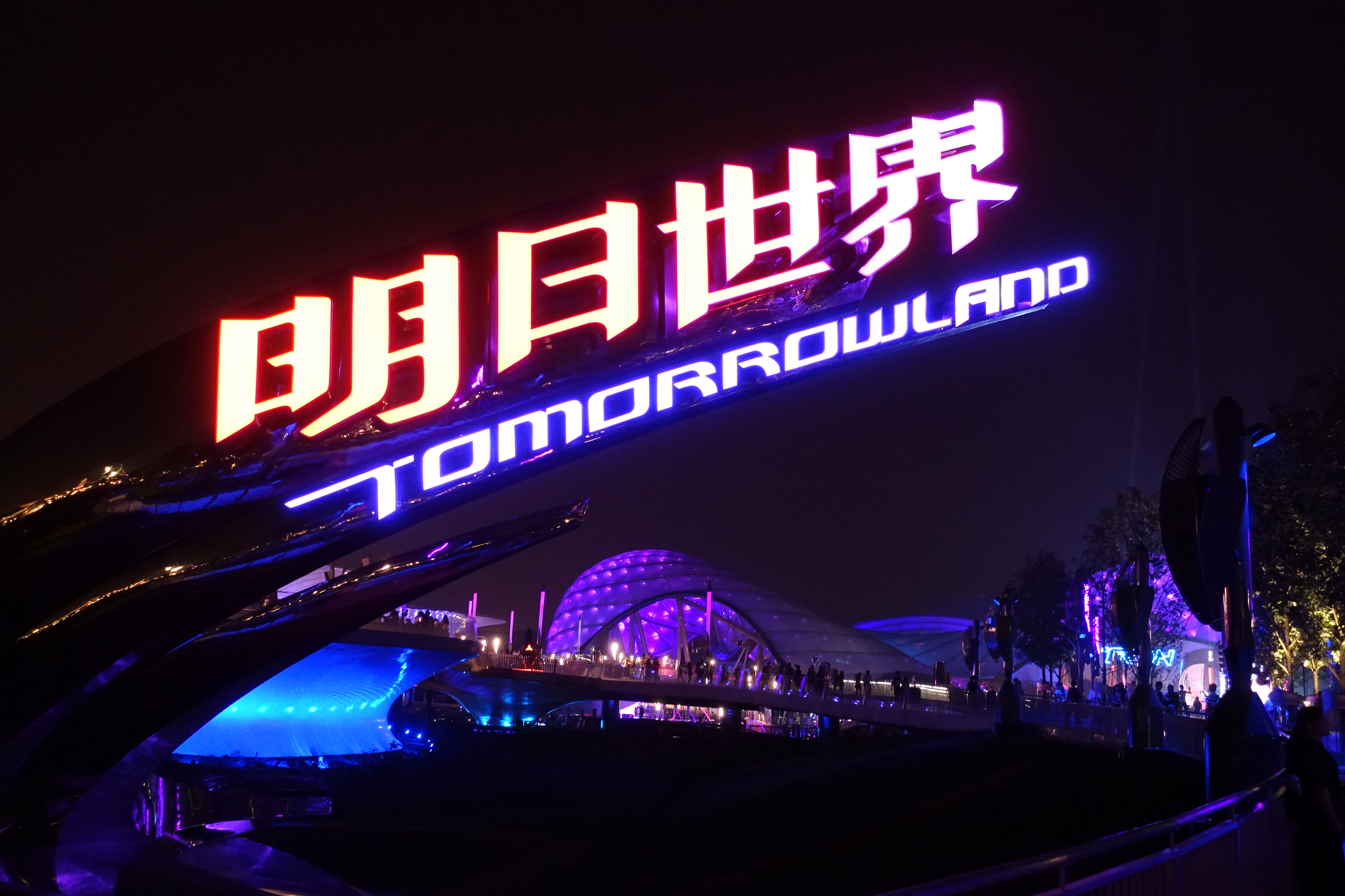 Tomorrowland